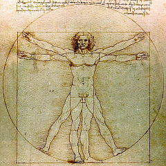 Vitruvian Man by Leonardo da Vinci, Galleria dell' Accademia, Venice (1485-90). Rotated 0.5 degrees clockwise from original photograph, colours adjusted, cropped and downsampled using IrfanView. Intended for use in icons or image maps.